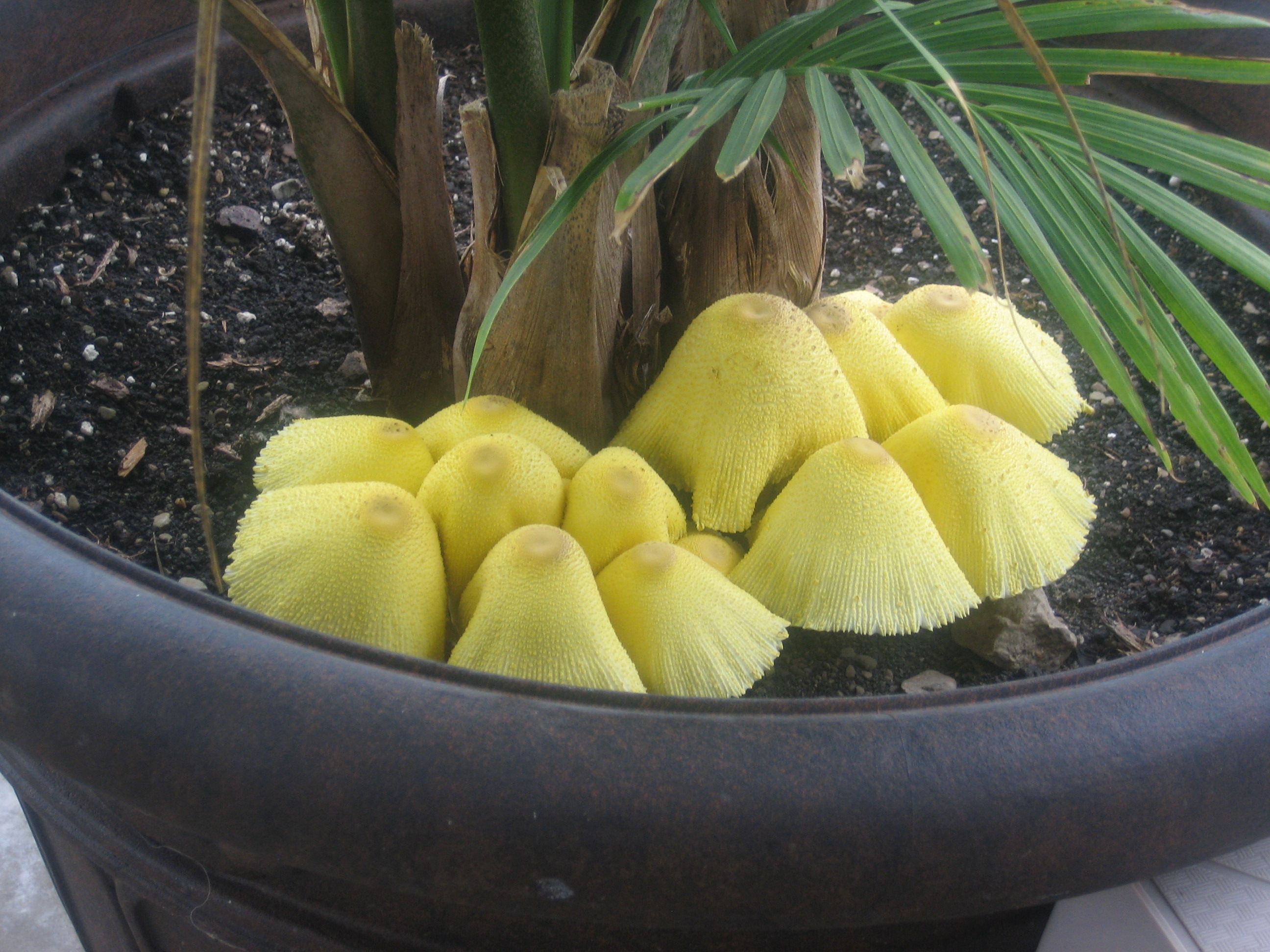 Leucocoprinus Birnbaumii: This picture is showing the growth of the fungi after only 3 days of being visible. Picture taken in Crown City, OH